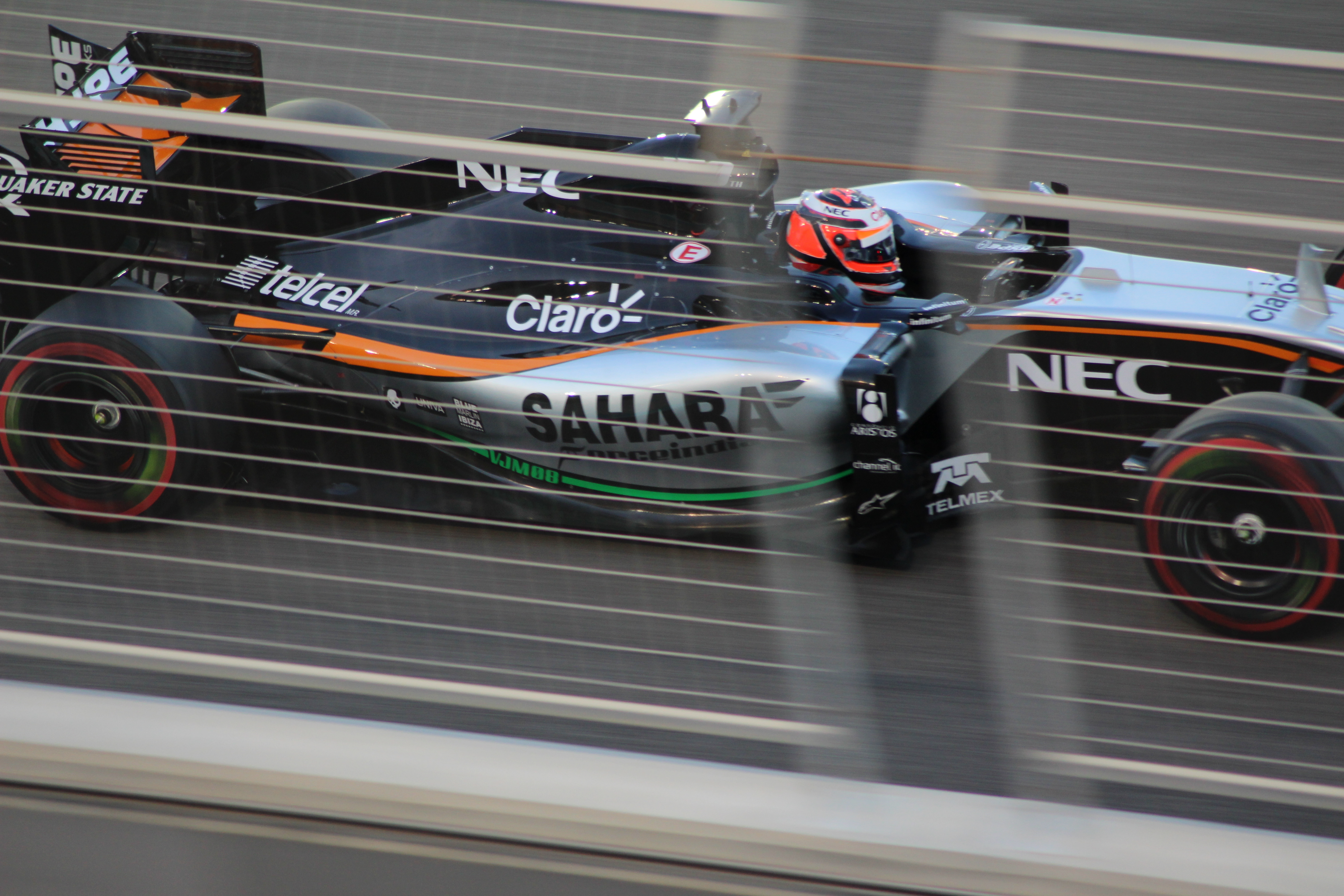 Nico Hülkenberg at the 2015 Abu Dhabi Grand Prix